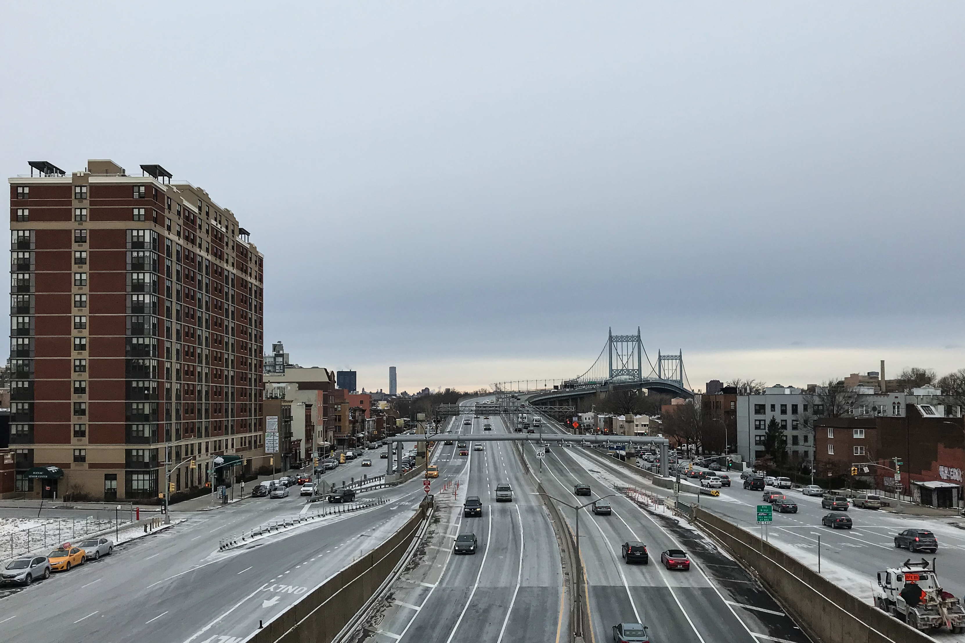 View of Interstate 278 as it approaches the Triborough Bridge in New York City.